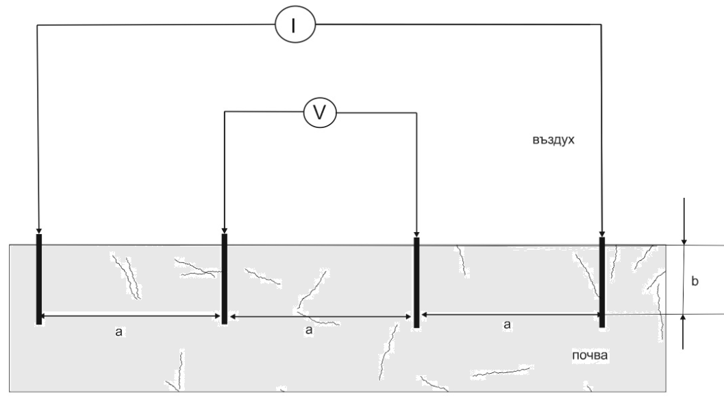 Measure the resistance of the soil by Wenner method TU-GO/EF